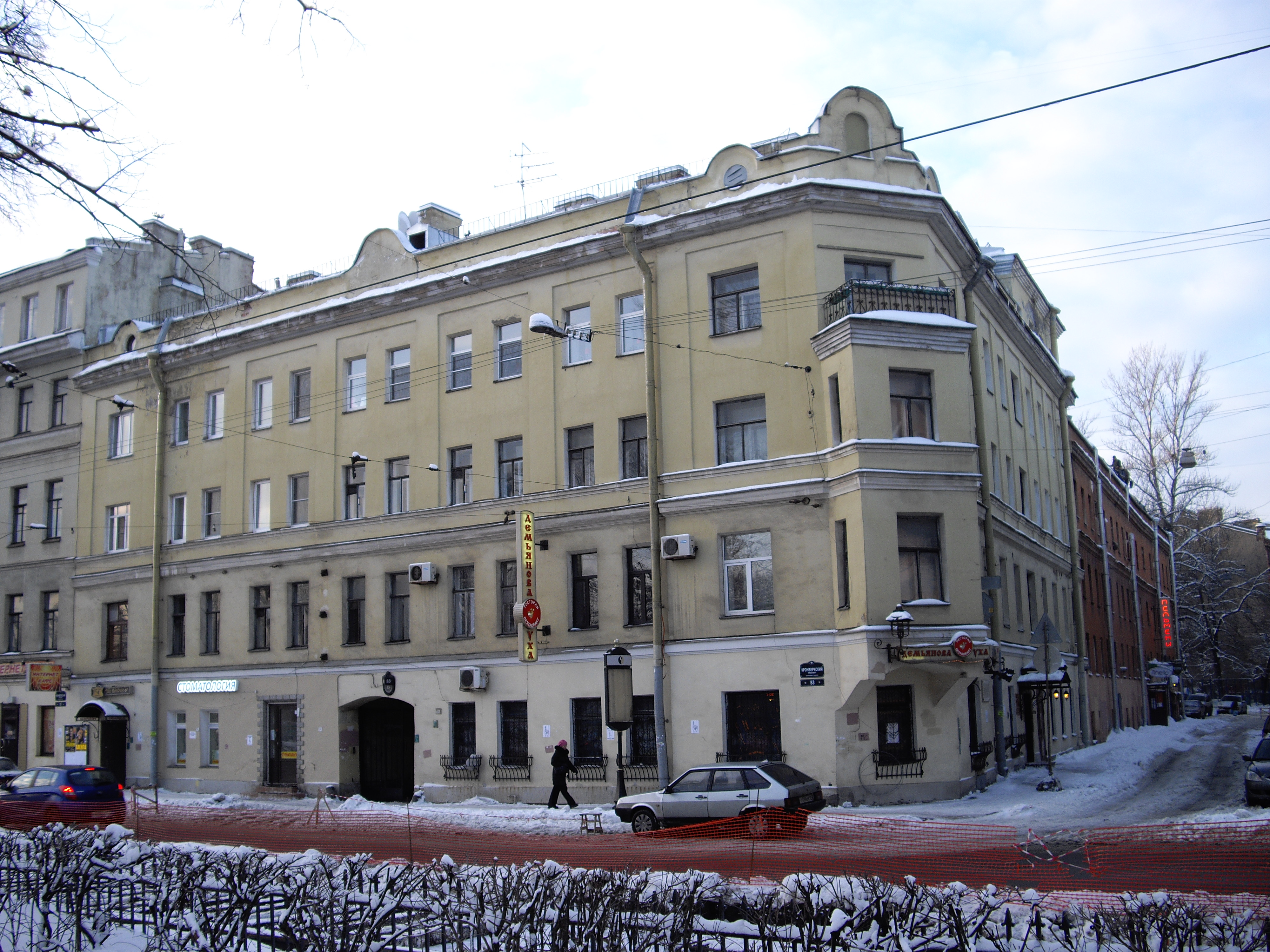 53, Kronverkskiy Prospekt, near the corner of Kronverkskaya Street (Saint-Petersburg, Russia).